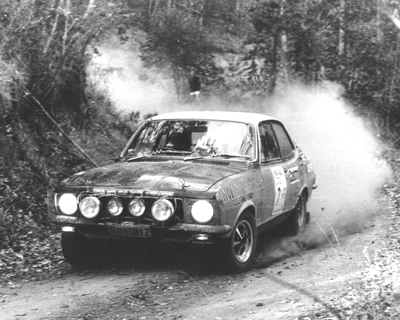 Colin Bond and George Shepheard in the HDT Torana XU-1, Winners of the 1972 Warana Rally, round four of the 1972 Australian Rally Championship. Photo by Graham Ruckert.